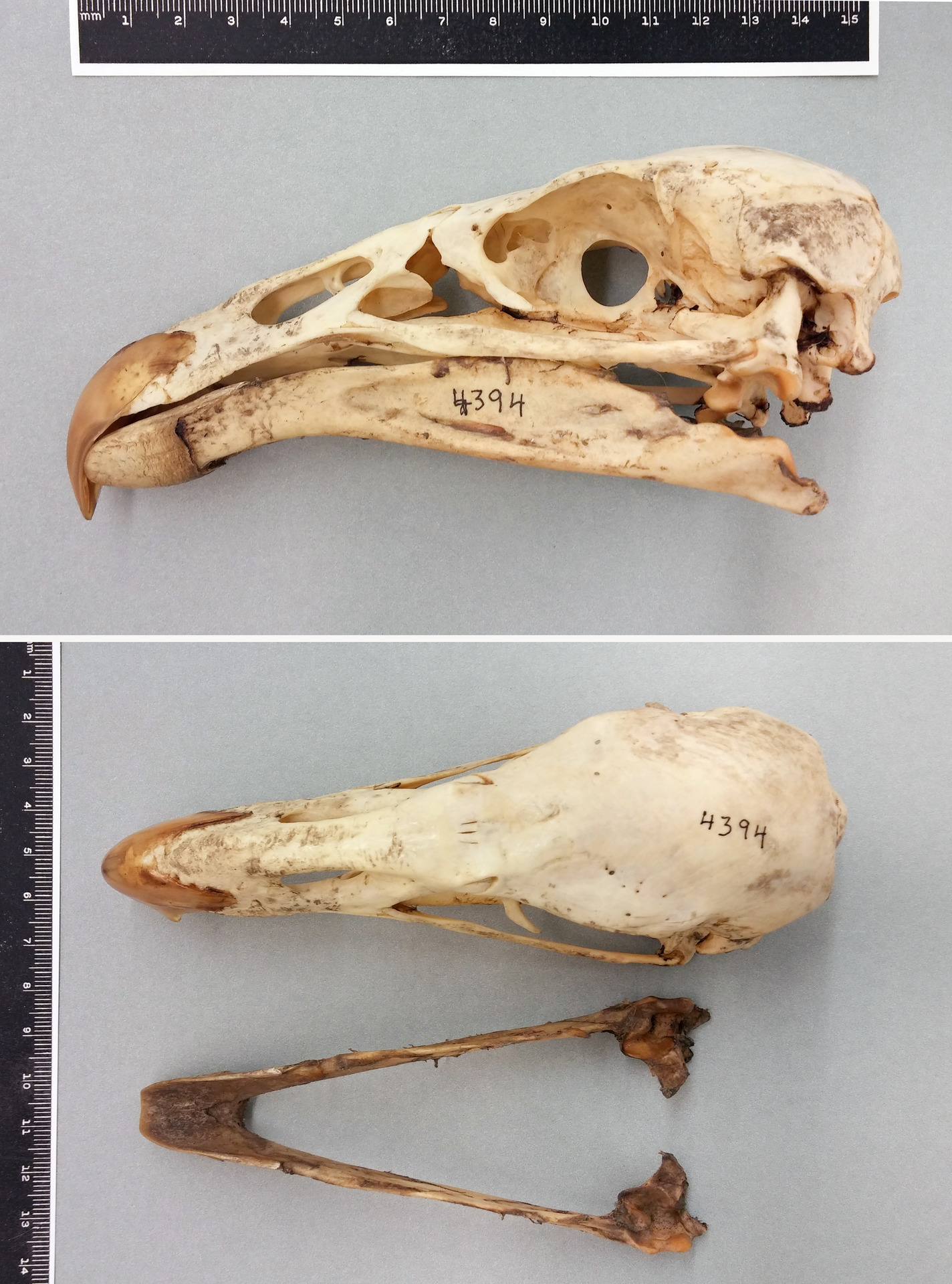 Skull of the California condor (YPM ORN 103017): Gymnogyps californianus Courtesy of the Peabody Museum of Natural History, Division of Vertebrate Zoology, Yale University; .